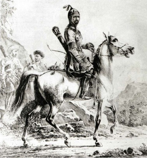 Old picture from CIRCASSIA in 1830 "The Circassian knight" , the artist supposed to be dead from more than 145 years, and was published again on a Russian Book for Э .Г. Аствацатурян , titled "Оружие Народрв Кавказа", in 2004